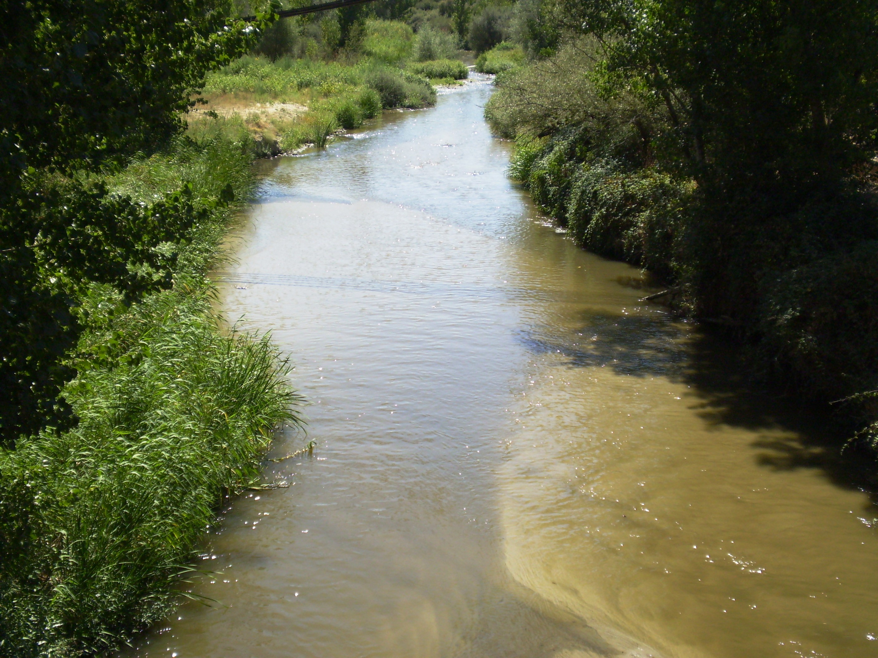 Guadarrama River, Community of Madrid, Spain